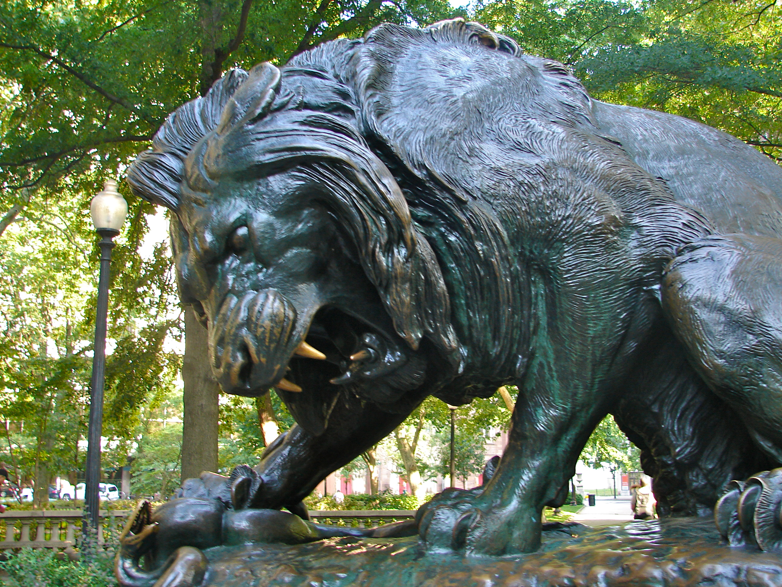 Statue of a lion and a snake in Rittenhouse Square, Philadelphia